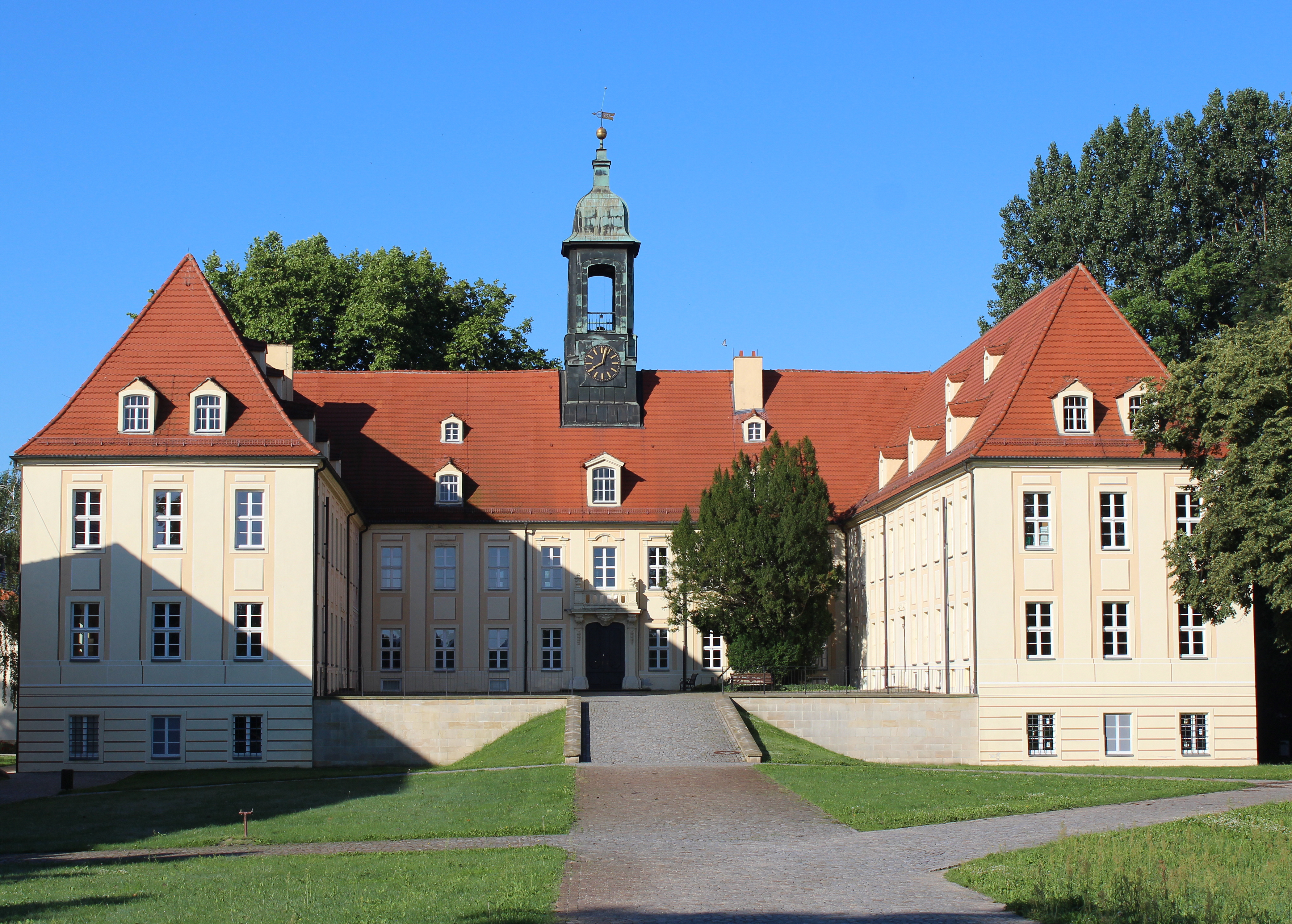 The castle of Elsterwerda.